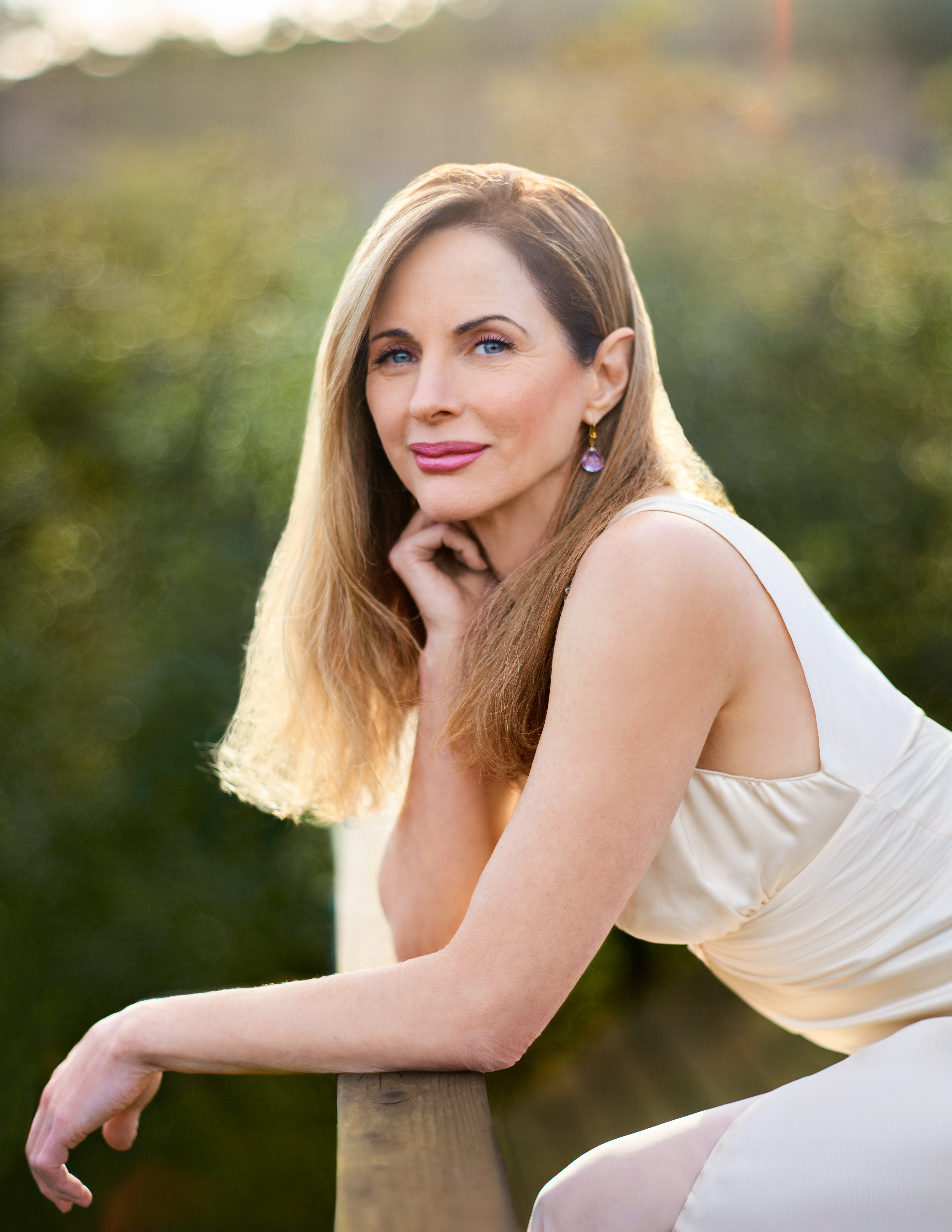 This is a horizontal flip of the image File:KarenLorre DSF9696-RGB-12x15.jpg, which is an image of Karen Lorre (formerly Karen Witter) taken by User:Robertkerian. User:Thivierr used Lightroom to flip the image horizontally and released the resulting image under an identical license (cc-by-sa-4.0).